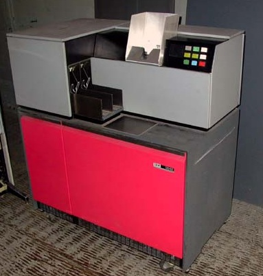 IBM 1442 Card Reader/Punch I. This photo was taken by Mike Ross of . He has given permission via email